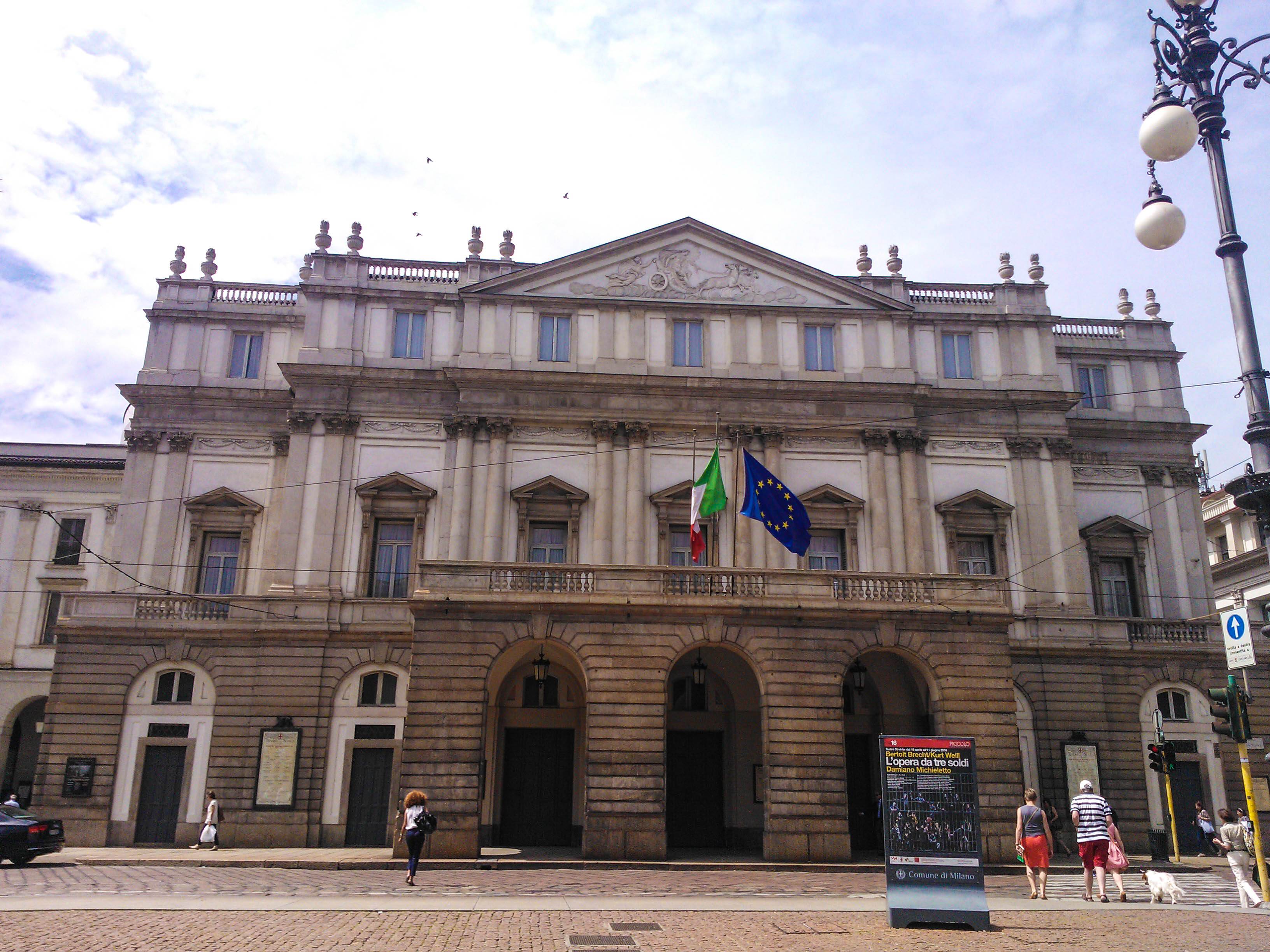 Teatro Alla Scala in Milan, Italy.